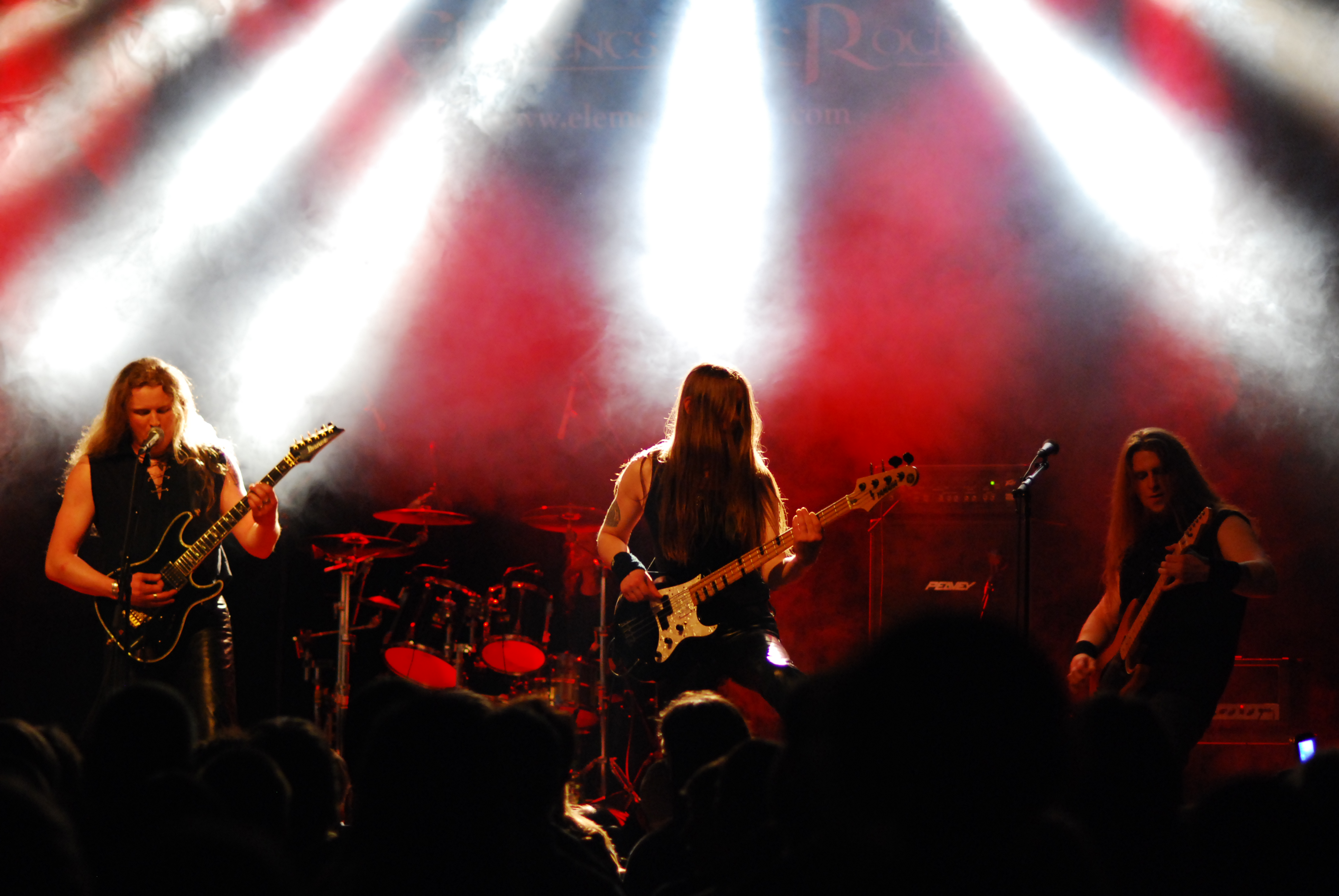 German power metal music group Seventh Avenue live at Elements of Rock, Switzerland.